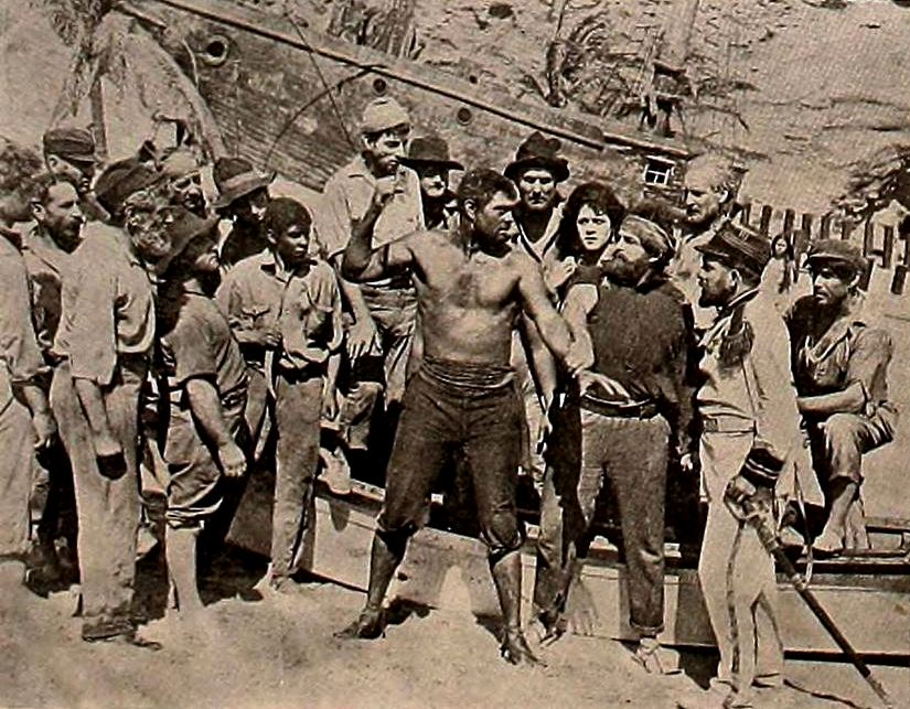 Still from the American film Under Crimson Skies (1920) with Elmo Lincoln, on page 4964 of the June 19, 1920 Motion Picture News.